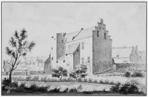 Court of Anholt, backside